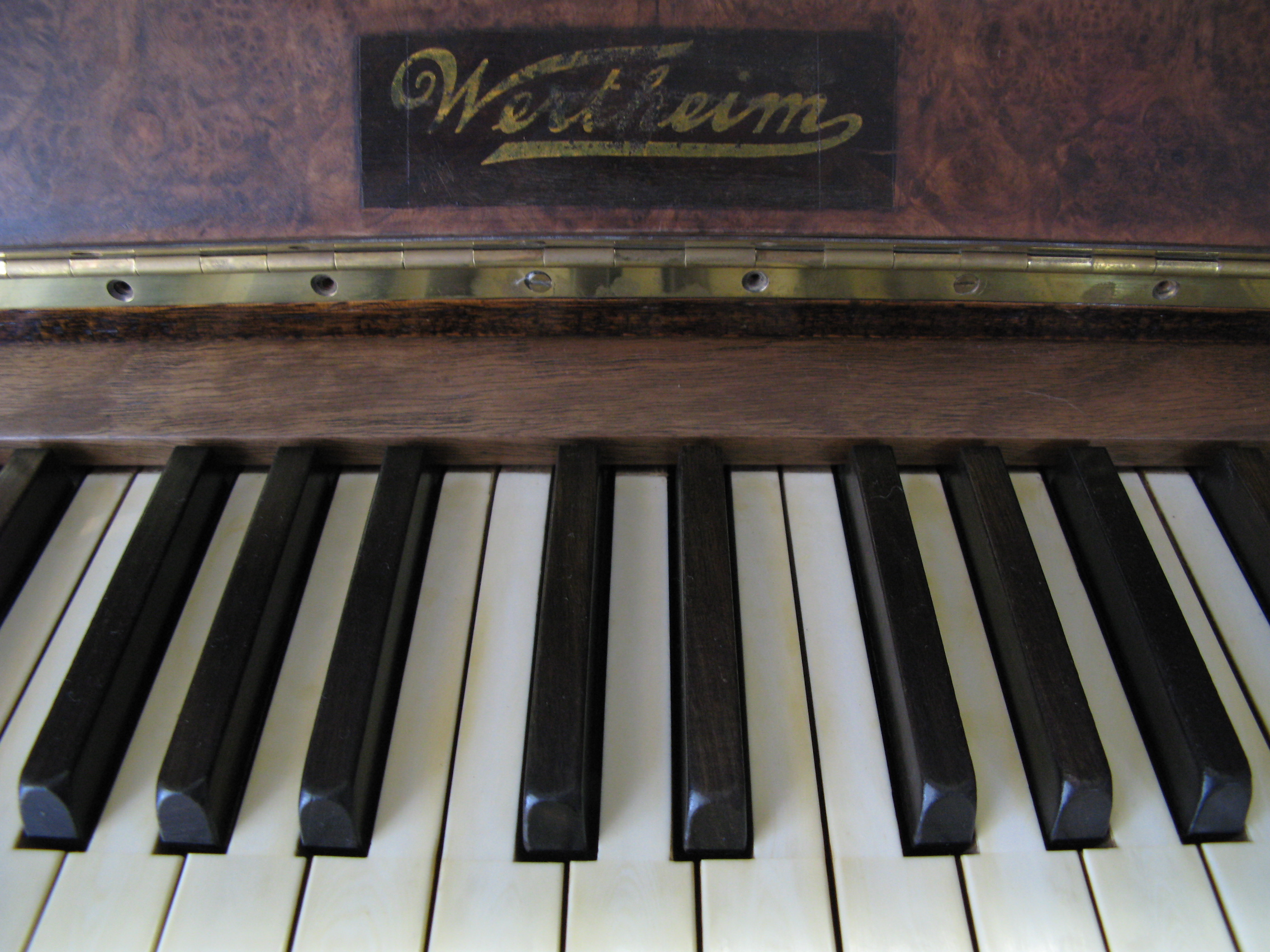 Photograph of the Wertheim logo and keyboard on a 1930-1935 Wertheim upright piano